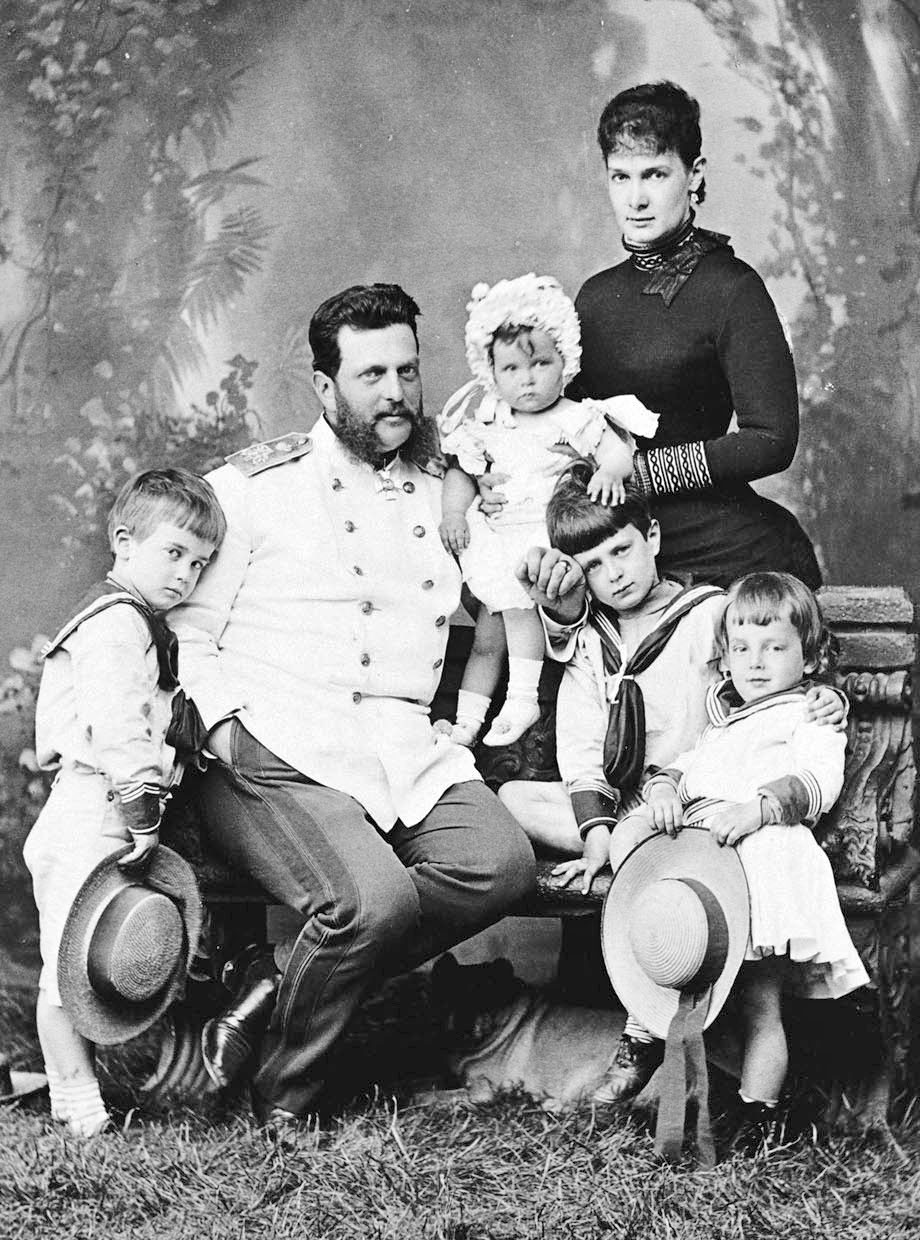 Vladimir Alexandrovich of Russia and family